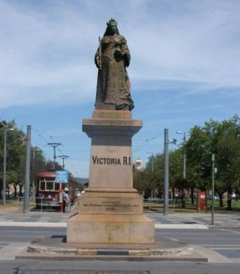 Statue of Queen Victoria erected 1894. The statue is in the centre of Victoria Square, Adelaide, which itself is in the centre of the Adelaide city centre. The photo was taken before the Glenelg tramline was extended through the square in 2007.